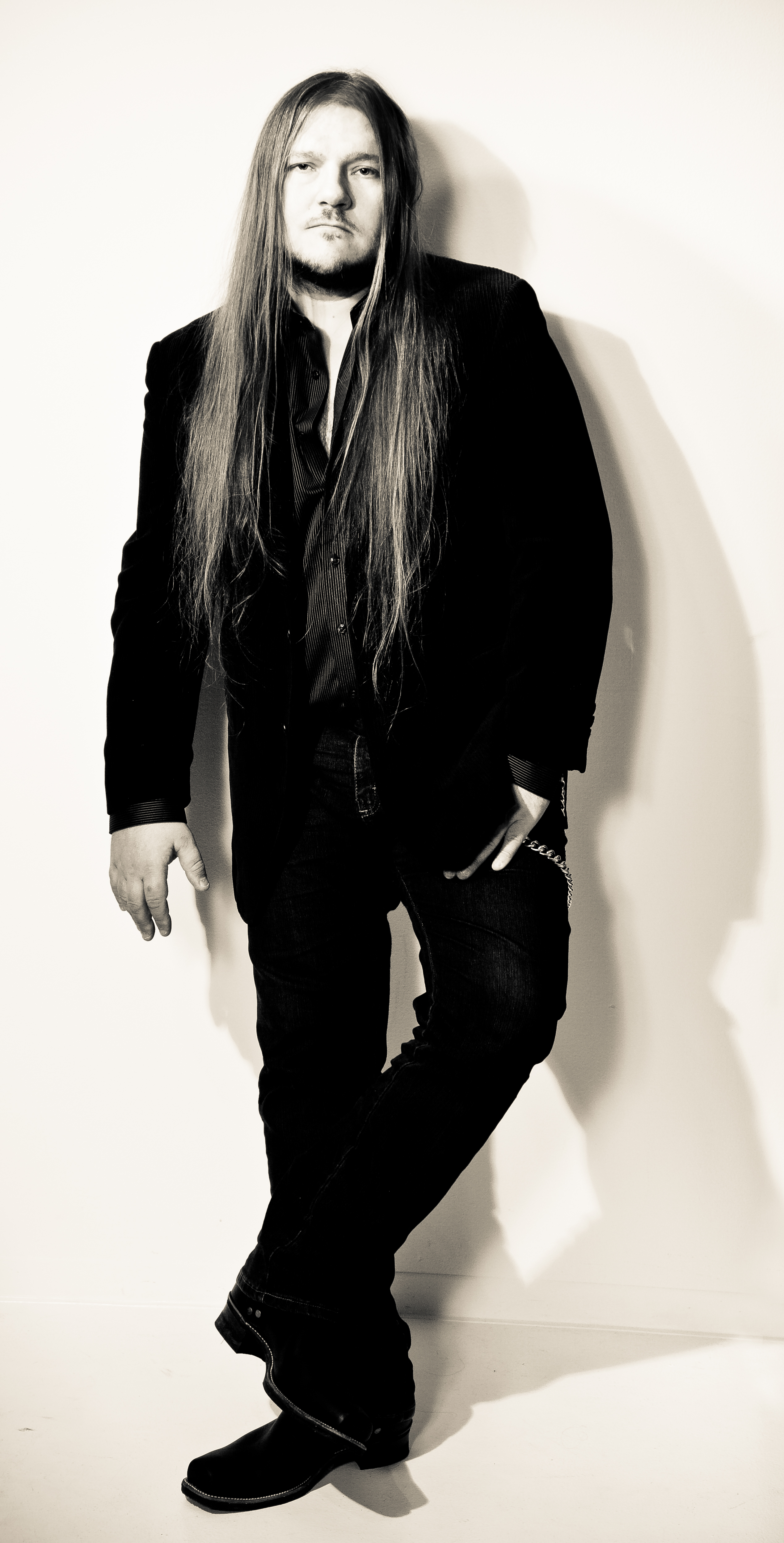 Photo of Jan Yrlund, taken for the CD "Secret Passion" of Imperia in 2011